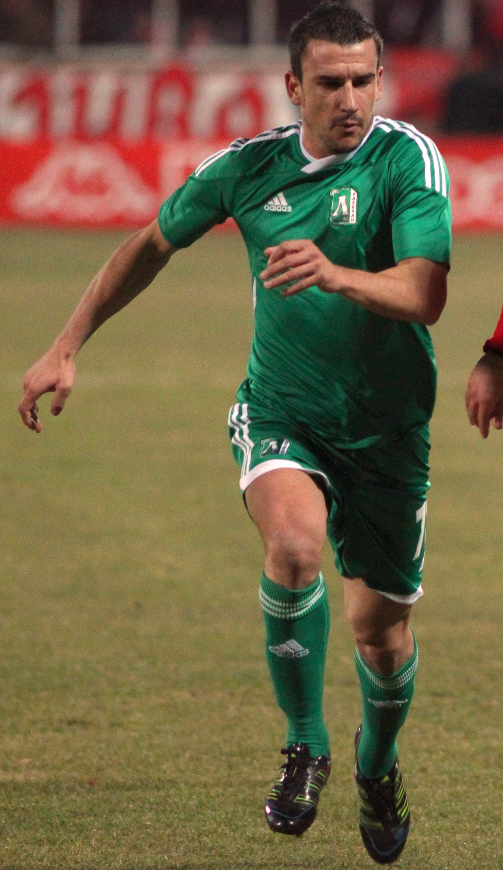 Bulgarian midfielder Ivan Stoyanov